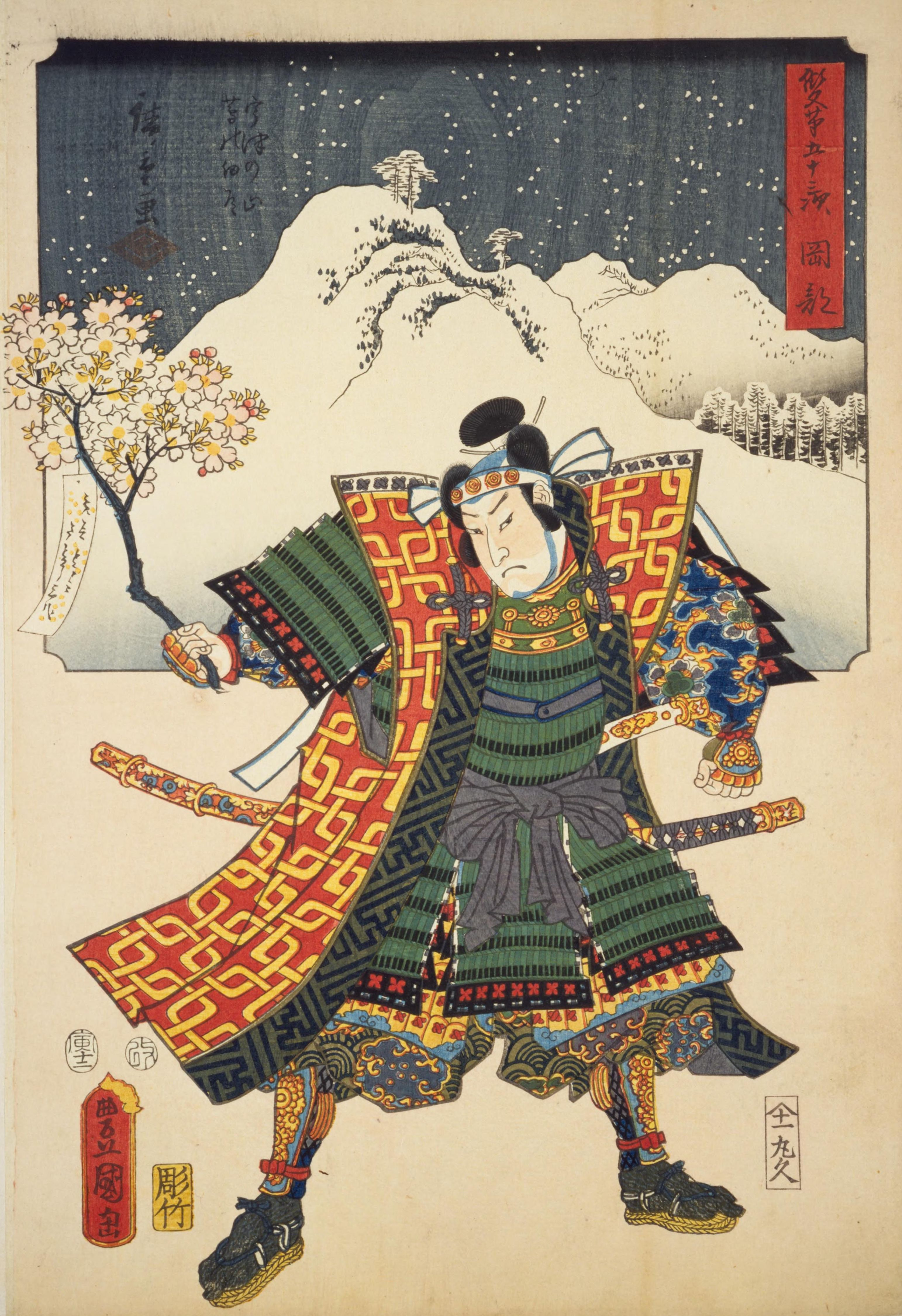 The Fifty-three Stations by Two Brushes (Sōhitsu Gojūsan tsugi) : Okabe (Okabe Rokuyata)